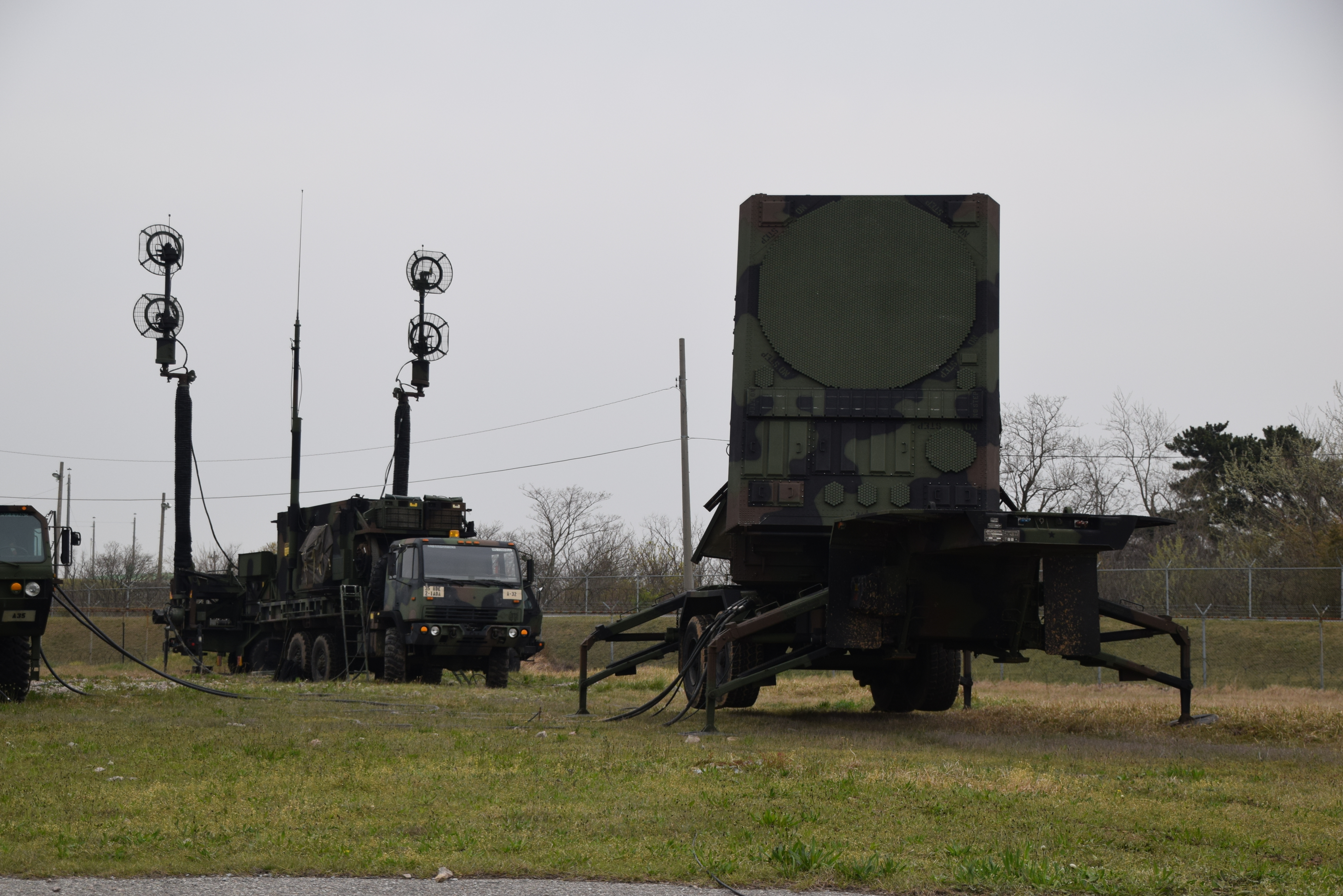 AN/MPQ-65 radar set scans the skies over Kunsan Air Base, South Korea, April 20, 2016 during Max Thunder ’16, a joint/combined exercise designed to enhance interoperability between U.S and Republic of Korea forces. The exercise involved over 1,000 U.S. personnel and 600 ROK service members. (Photo by U.S. Army Capt. William Leasure, 35th ADA Brigade Public Affairs) Unit: 35th Air Defense Artillery Brigade